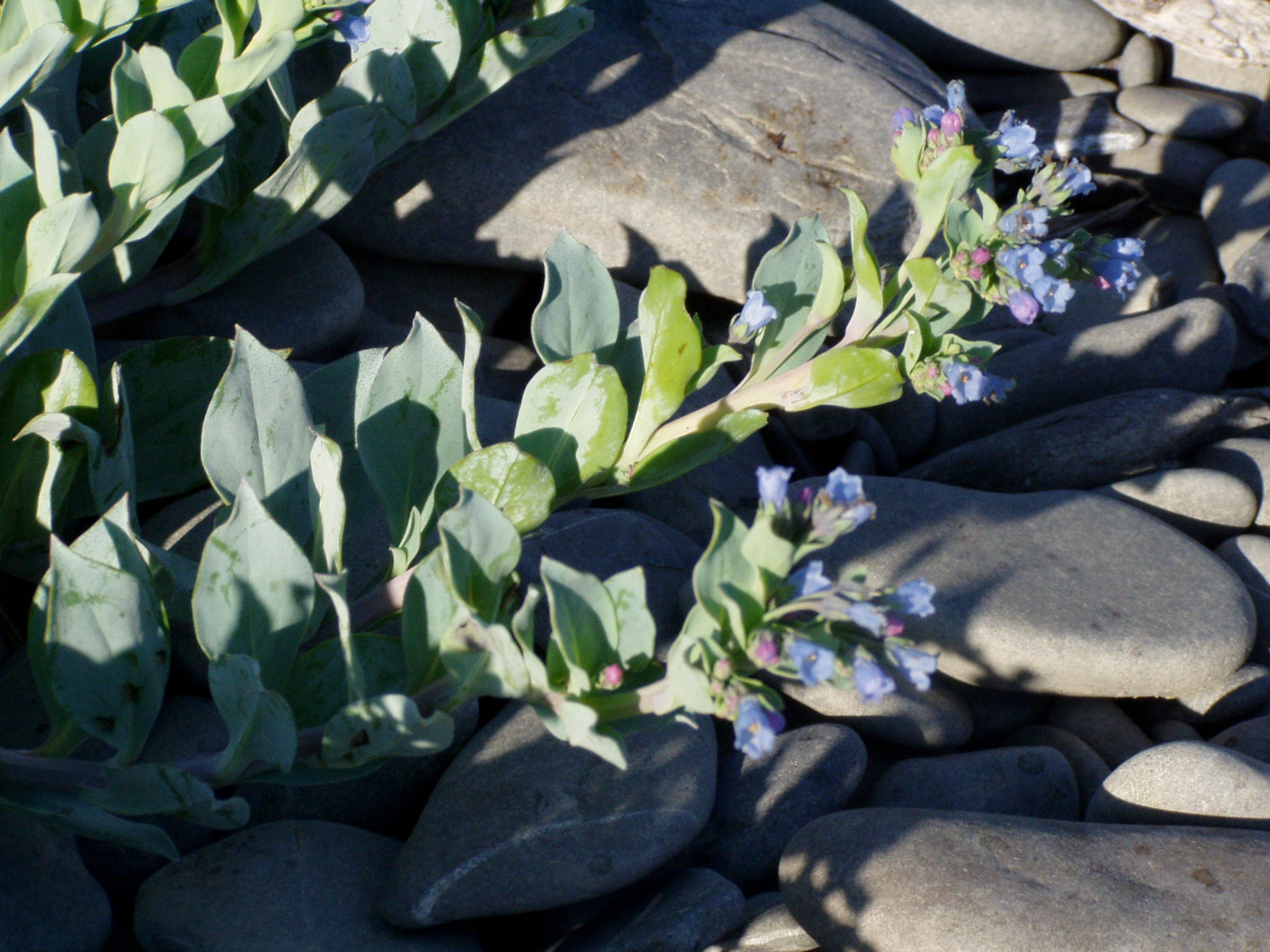 Oysterleaf (Mertensia maritima). Photo taken in July 2005 by myself, Danielle Langlois, on a shingle beach at Pointe-à-la-Frégate, Québec, Canada.